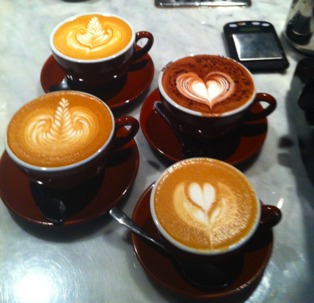 This is an example of 4 different free-pour latte arts. The Rosetta is on the bottom left. A slight variation of the Rosetta with a base is top left. A basic heart is top right. A variation of a heart with a base, sometimes referred to as a "tulip", is bottom left, except a tulip usually has 3 or more levels.